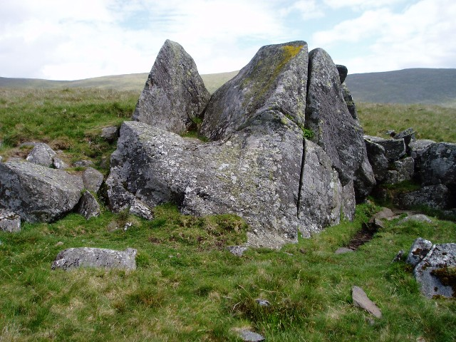 The Cloven Stone on Mungrisdale Common. This is a distinctive enough feature in an otherwise bleak landscape to be named on the 1:50,000 map.